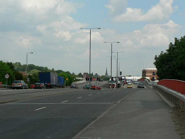 Calder Bridge, Denby Dale Road, Wakefield. The bridge over the River Calder, looking north towards the City Centre, with the spire of Wakefield Cathedral in the distance. See197300